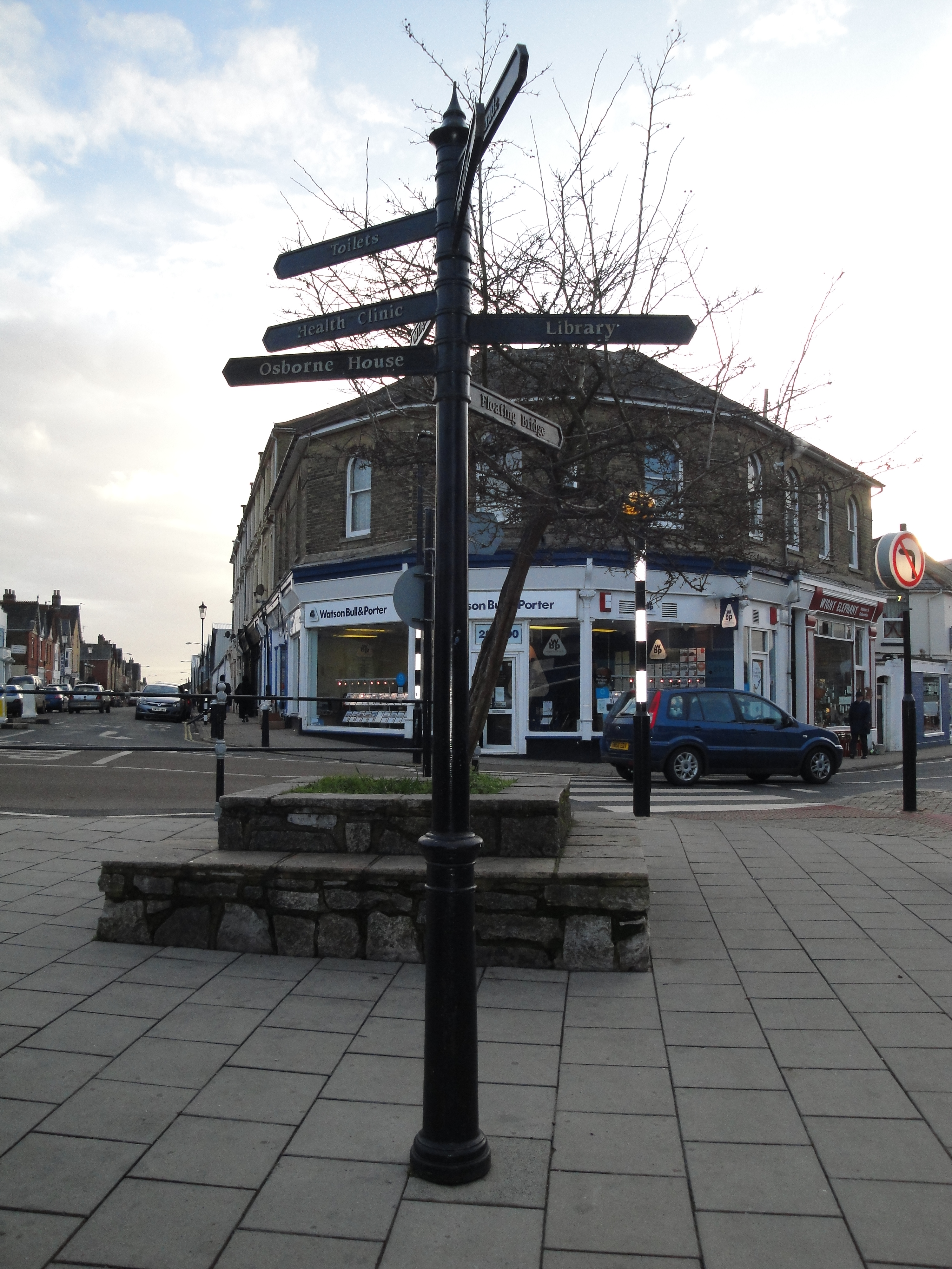 A fingerpost in York Avenue, East Cowes, Isle of Wight pointing to various locations around the town.